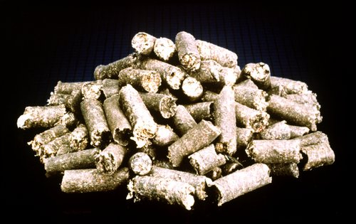 Pellets National Renewable Energy Laboratory